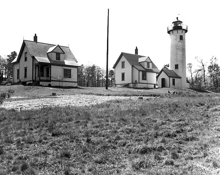 Tisbury West Chop Light Lighthouse - Black and white photograph showing 1891 tower.